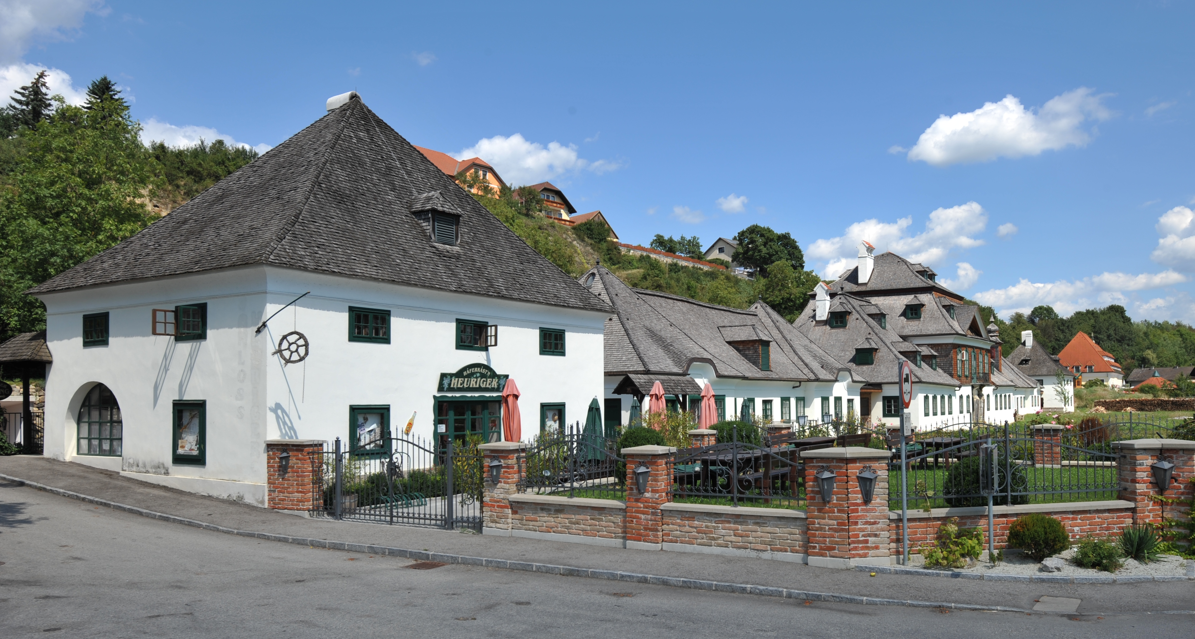 The making of this work was supported by Wikimedia Austria. For other files made with the support of Wikimedia Austria, please see the category Supported by Wikimedia Österreich. Emmersdorf an der Donau: Schlossanlage Luberegg